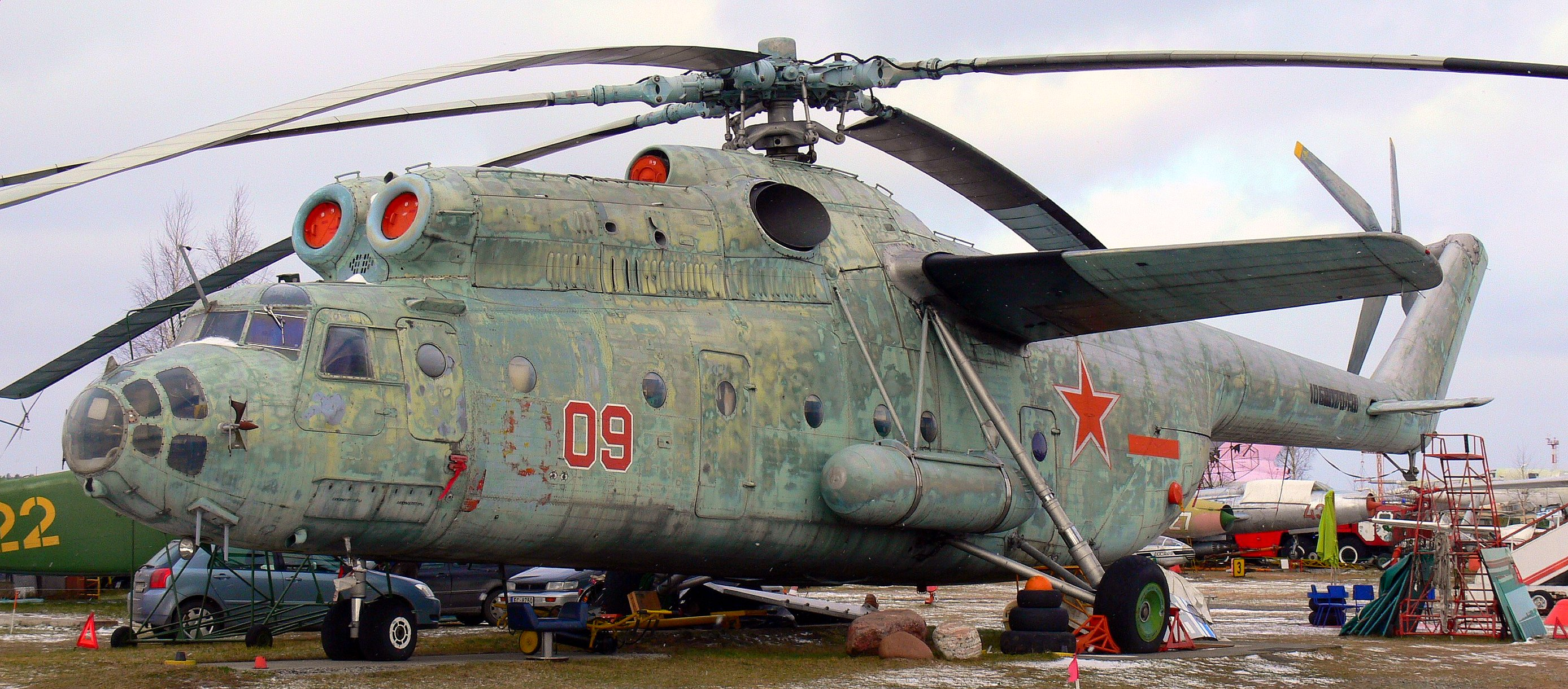 MI-6 Helicopter, Riga Airport, Latvia